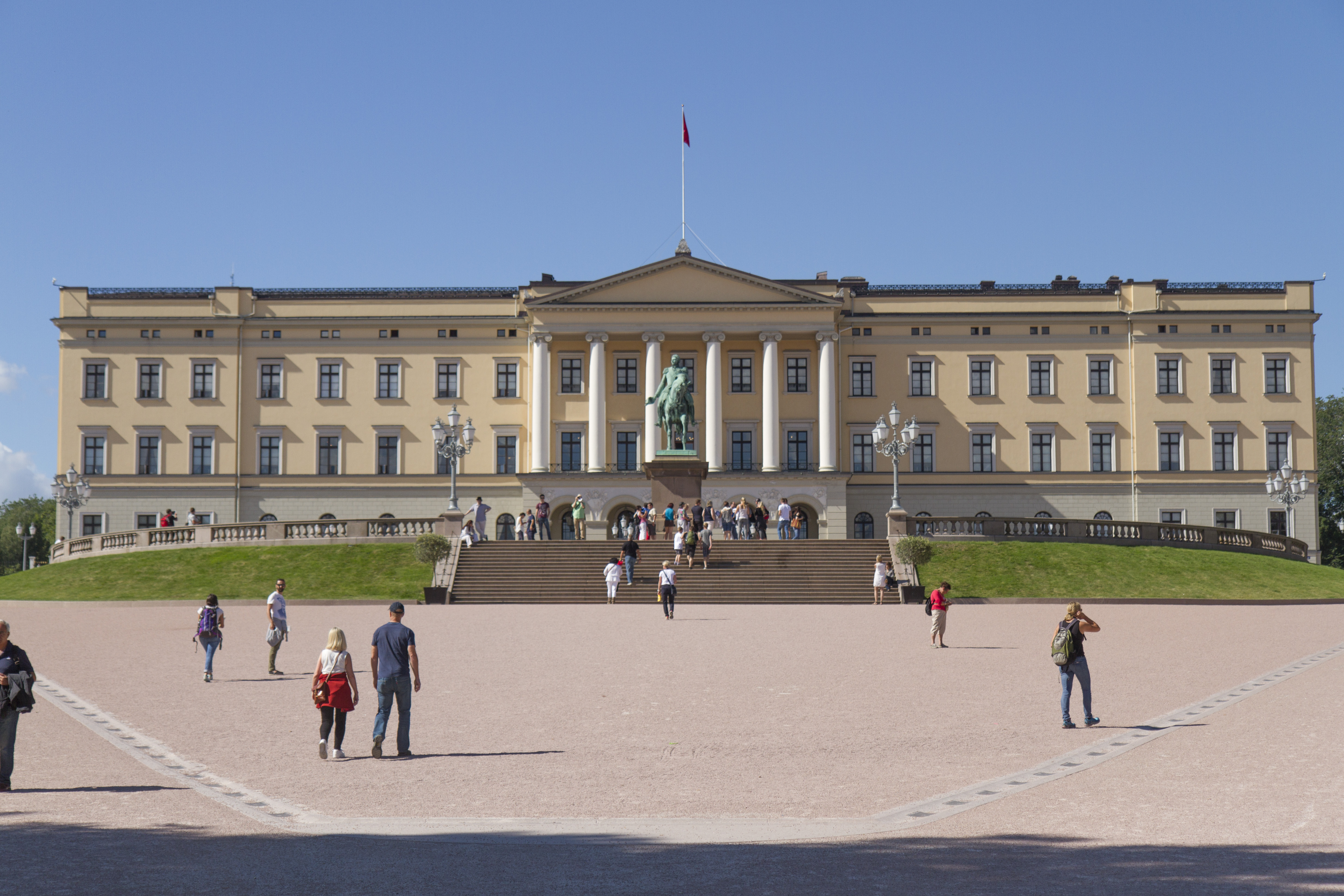 Royal Palace, Oslo